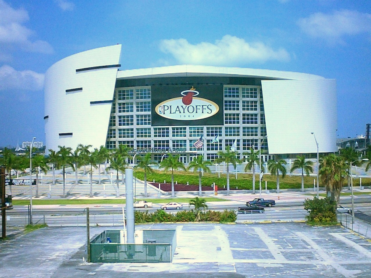 Digital photo taken by Marc Averette. American Airlines Arena in downtown Miami, Florida.